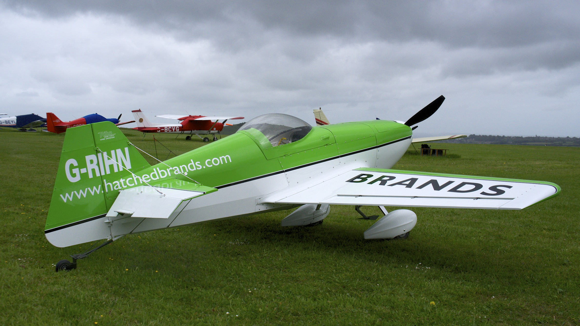 Every year the British Aerobatic Association holds the Don Henry Squadron competition at Compton Abbas - it looks like rain and low cloud may scupper the competition this year?